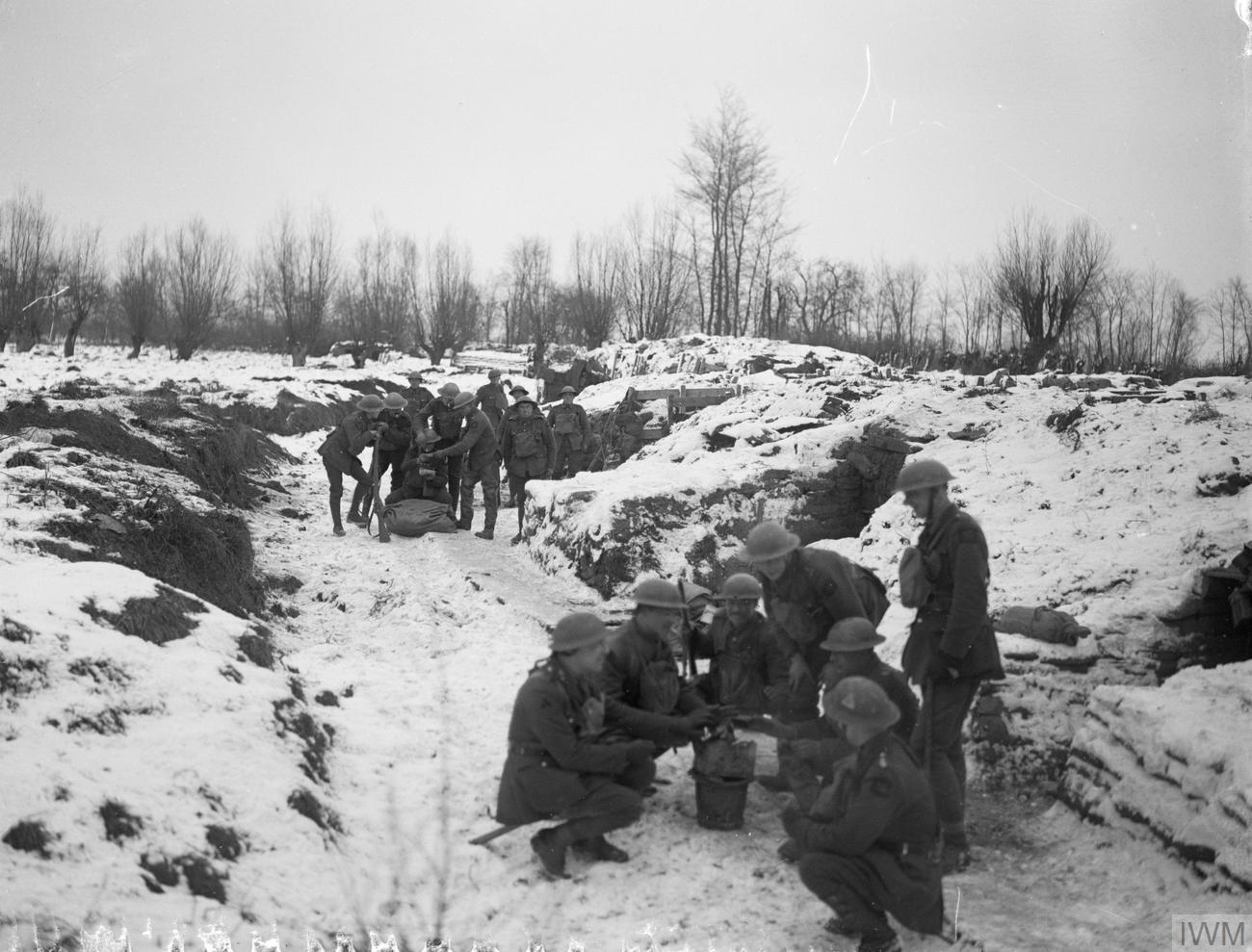 The British Army on the Western Front, 1914-1918 Men of the 15th Royal Welch Fusiliers (London Welsh) outside their dug outs in the trenches at Fleurbaix, 28 December 1917.